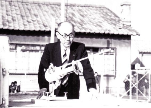 Lee Won-chol